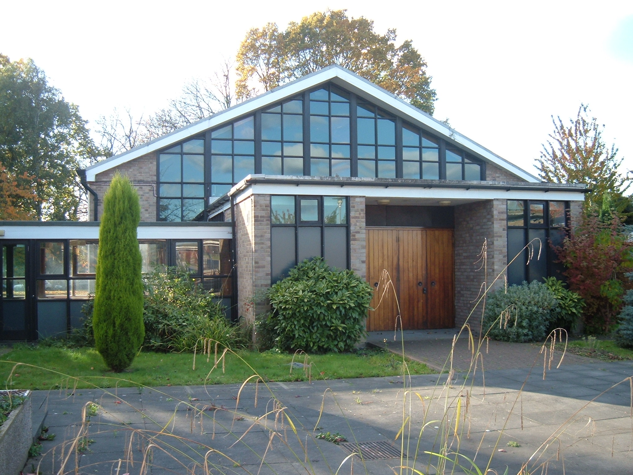 Amercian Forces Church RAF West Ruislip